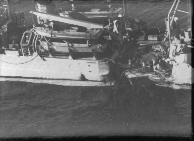 Damage to United States Navy high-speed transport USS Ruchamkin (APD-89) after her collision with merchant tanker Washington.